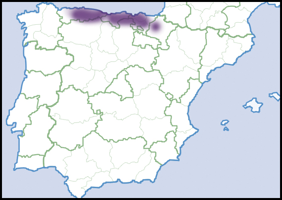 Pyrenaearia cantabrica (Hidalgo, 1873). Distribution in Europe, scientific state of knowledge of 2012. Source description in English. Light colour indicated rare occurrences or regions where the species could eventually be expected to occur. Dark colour indicated relatively reliable occurrences, as well as regions where the species was expected to occur, and where the species was not known to be extremely rare. Dark colour indications were not necessarily based on published records. Species summary in AnimalBase